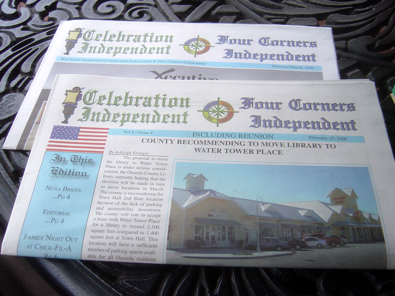 The Celebration Independent, newspaper of Celebration, Florida (the city designed and planned by The Walt Disney Company). Photo taken by Bobak Ha'Eri. February 23, 2006. Please observe license and properly cite in use outside Wikipedia.